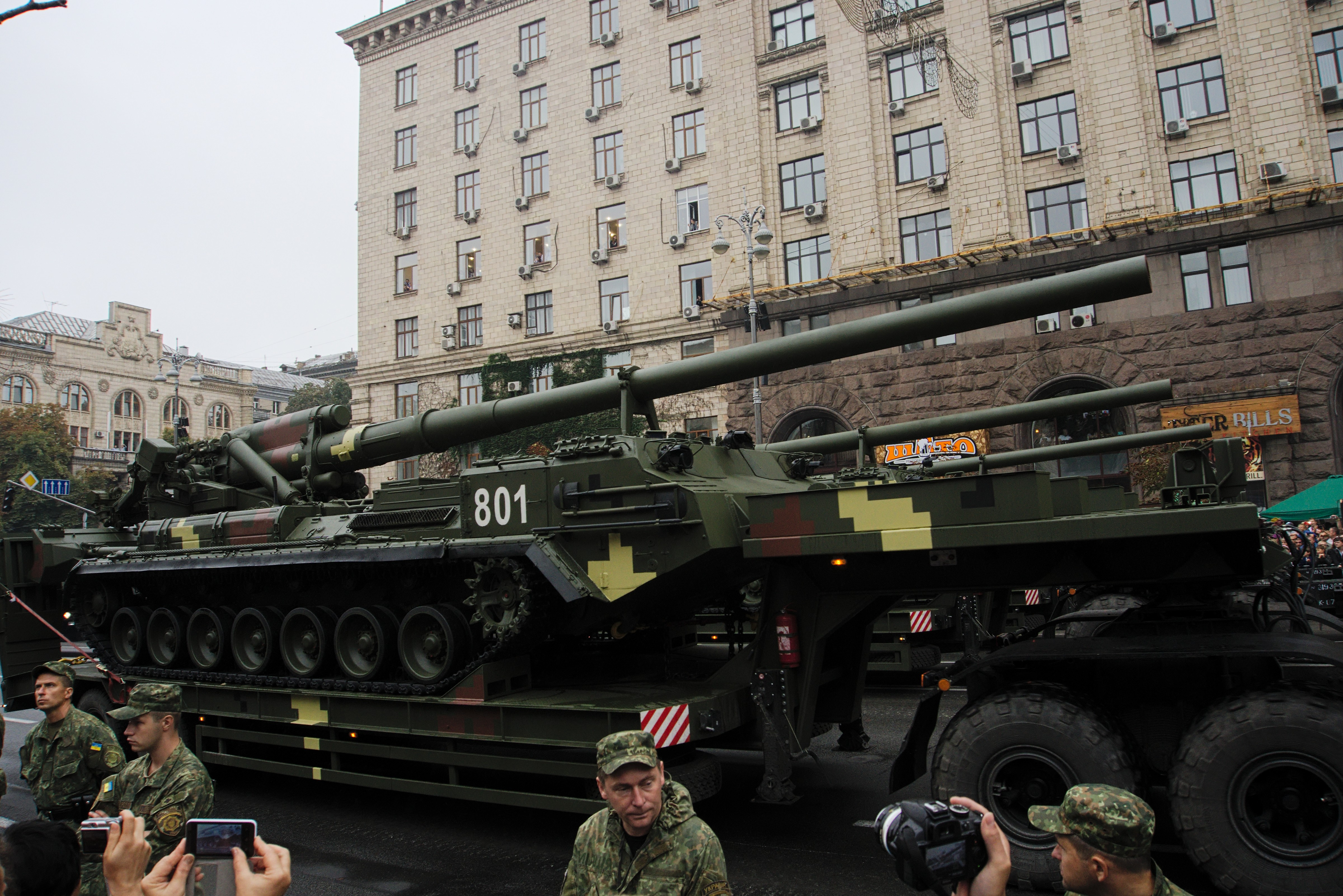 Pion